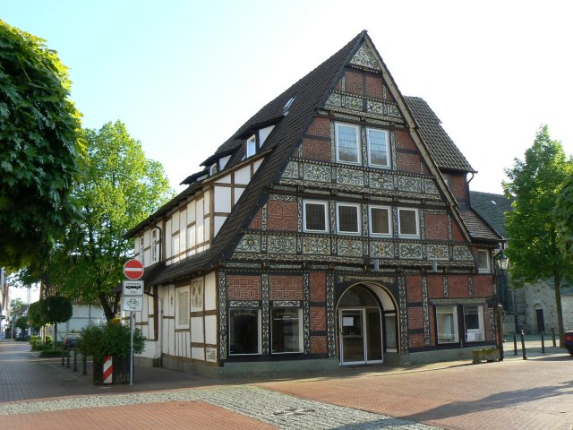 Decorated house in Rinteln.